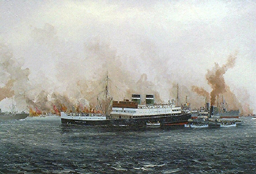 This is a low resolution copy of an oil painting The artist is Kenneth King